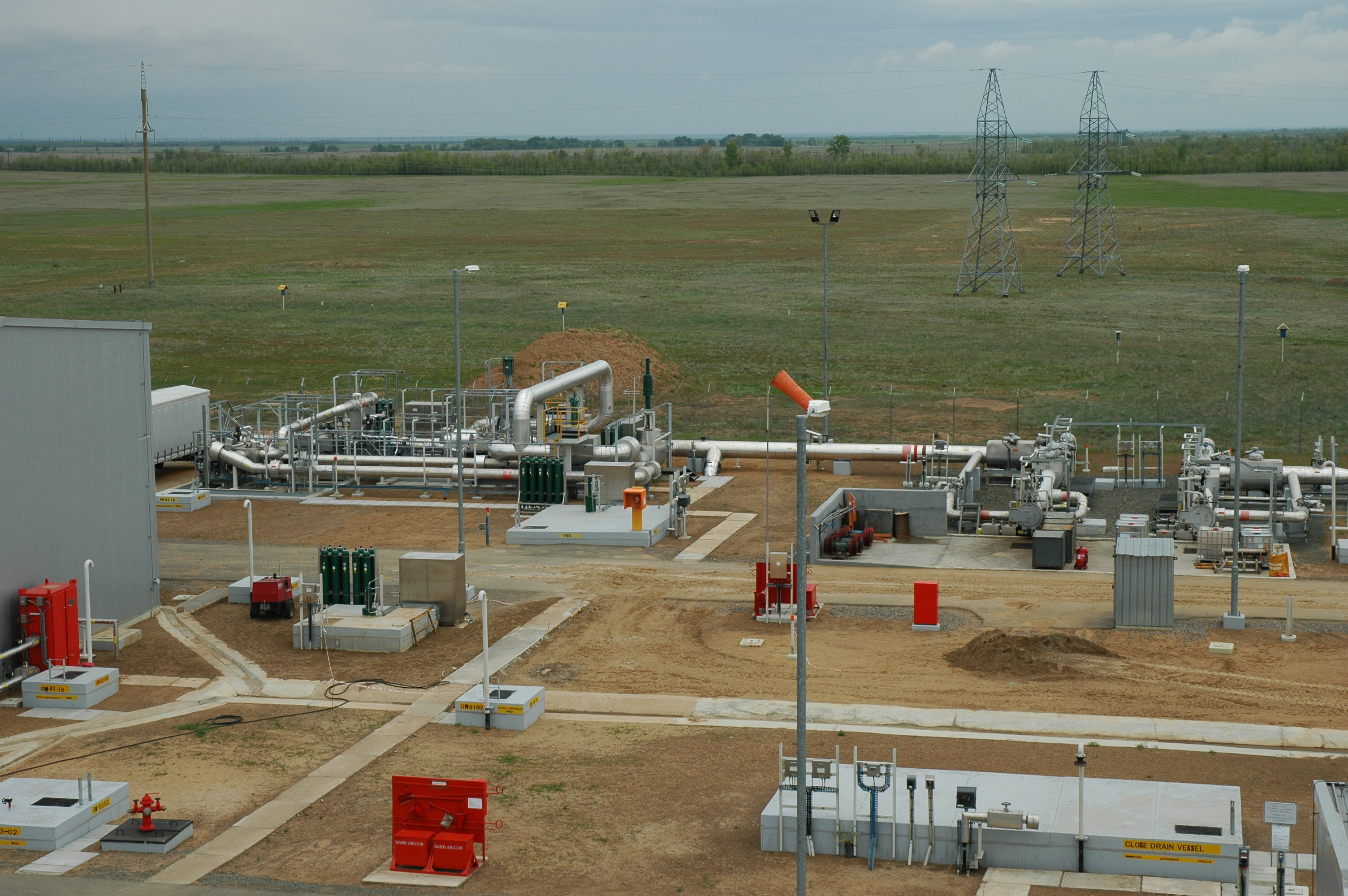 The Bolshoi Chagan pumping station